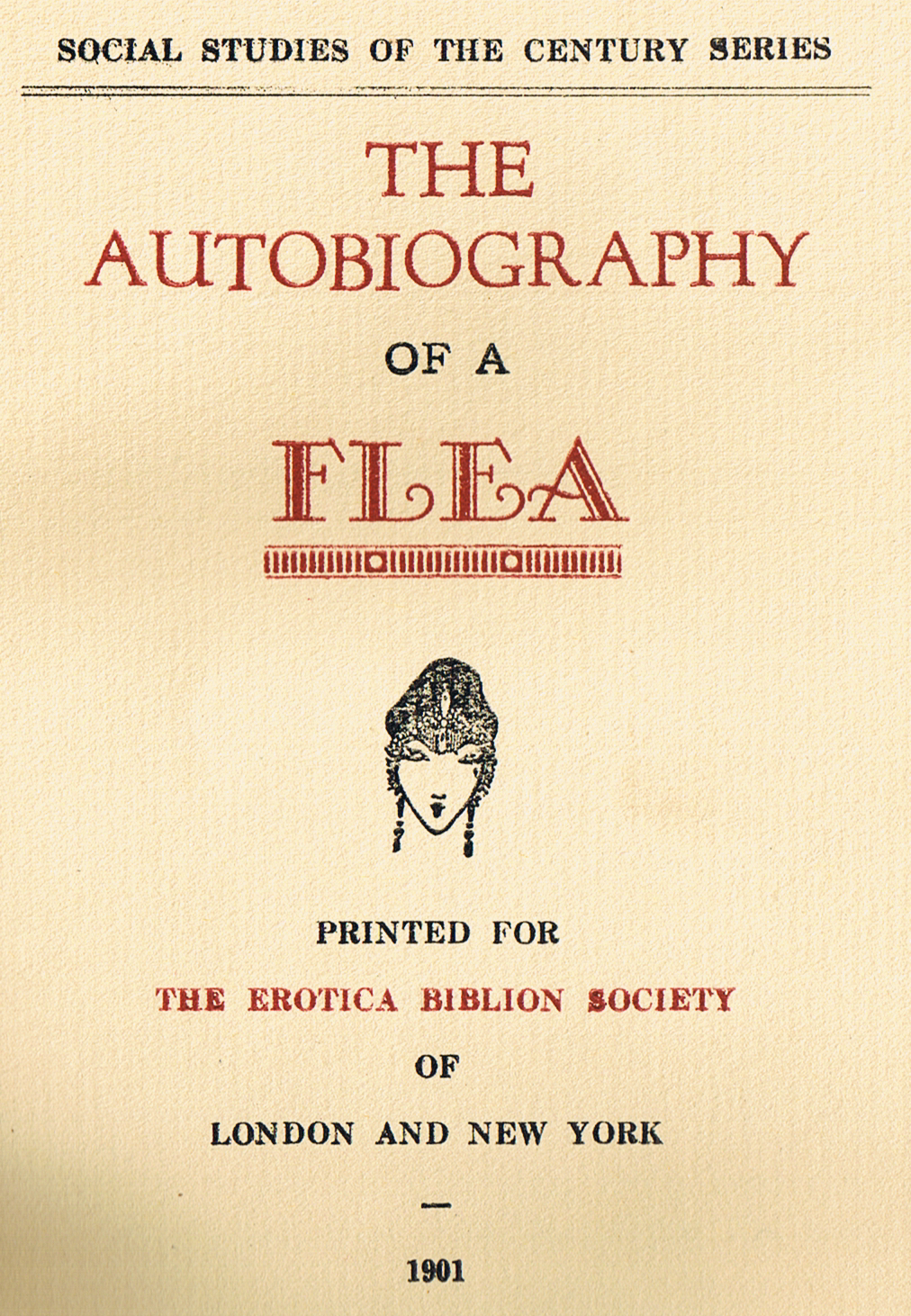 Scan of the title page from the 1901 edition of the novel "The Autobiography of a Flea"